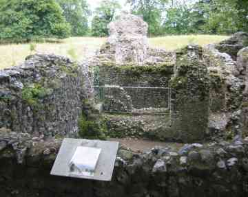 Ruins of 11th-century bishop's chapel and 14th-century fortified manor house at North Elmham, Norfolk, England